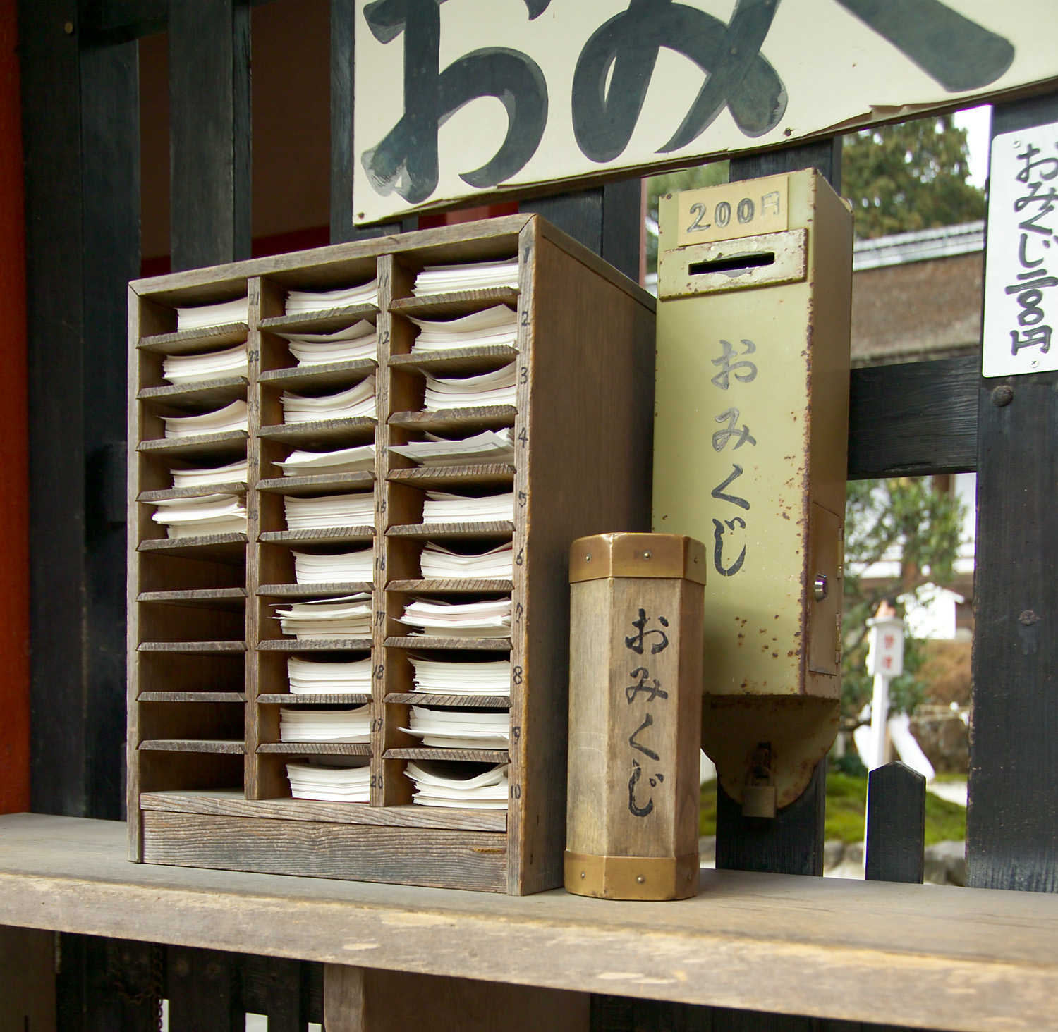 Omikuji at Kamigamo Shrine, Kyoto, Japan. The box marked "200" is for payment. The central brass-topped box contains lots, which tell the person which fortune to take. The shelves on the left contain the fortunes. I took this photo and contribute my rights in the file to the public domain; individuals and organizations retain rights to images in the file.